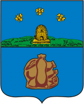 Borisoglebsk (Voronezh oblast), coat of arms (1781)